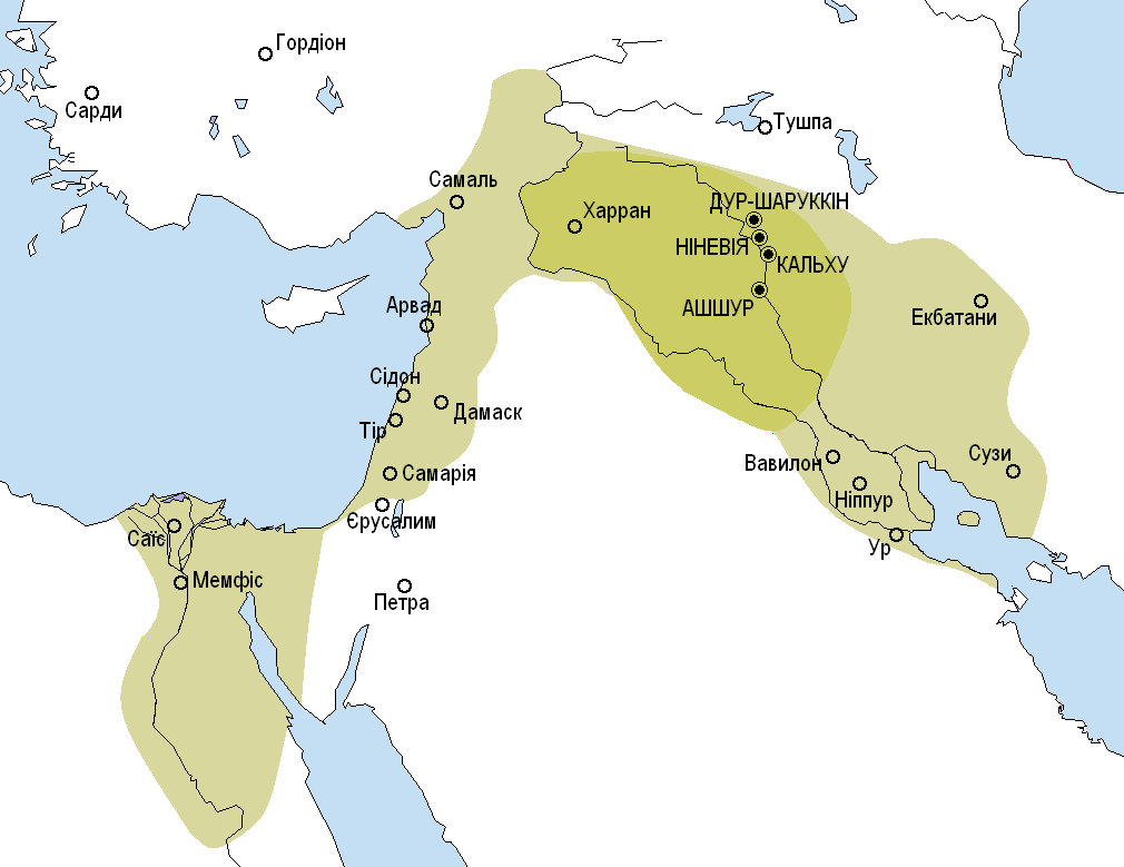 Map of Assyria (ukrainian)